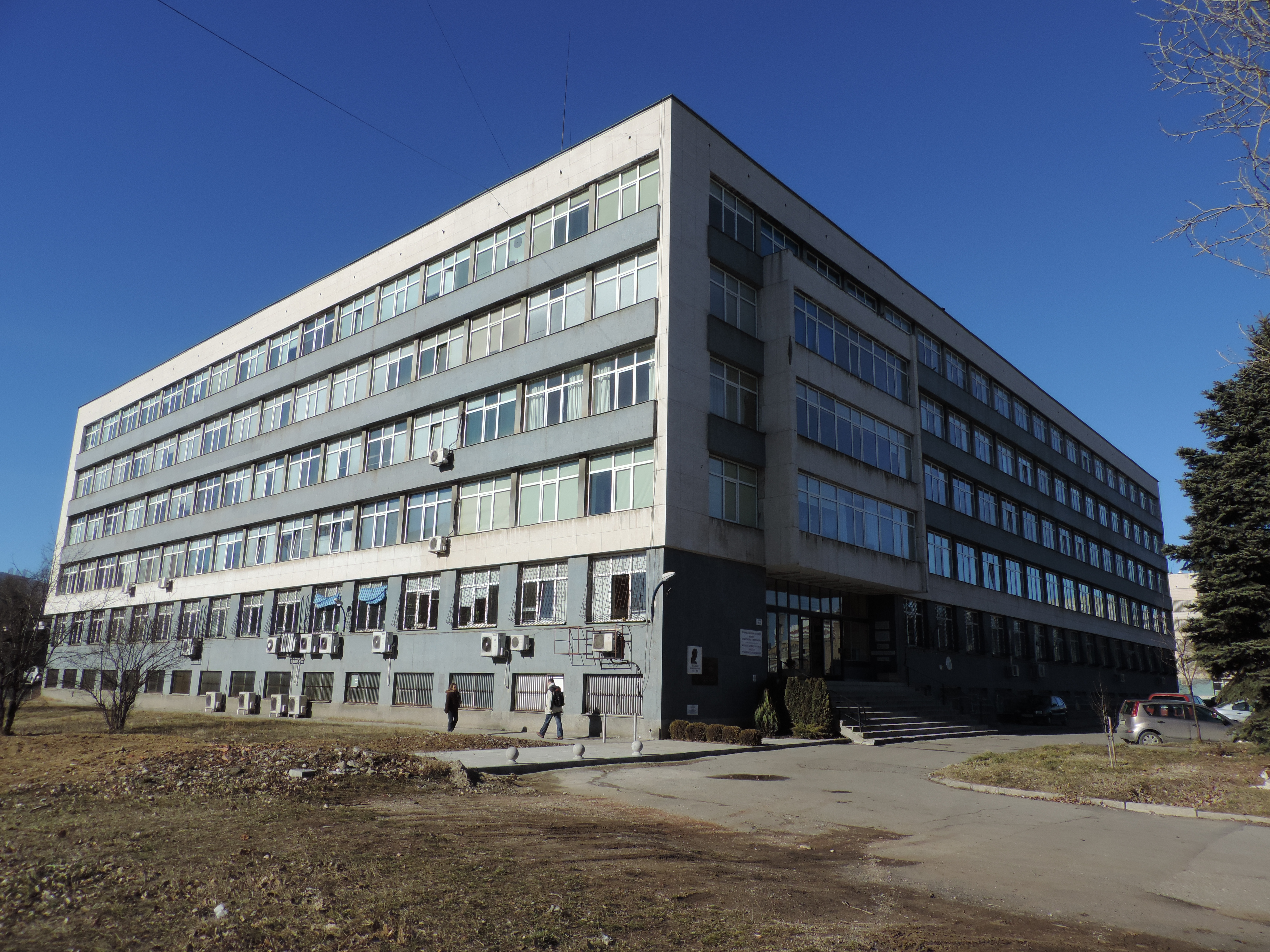 The Institute of Mathematics and Informatics at the Bulgarian Academy of Sciences. Block 8 in the "4th Km" campus.